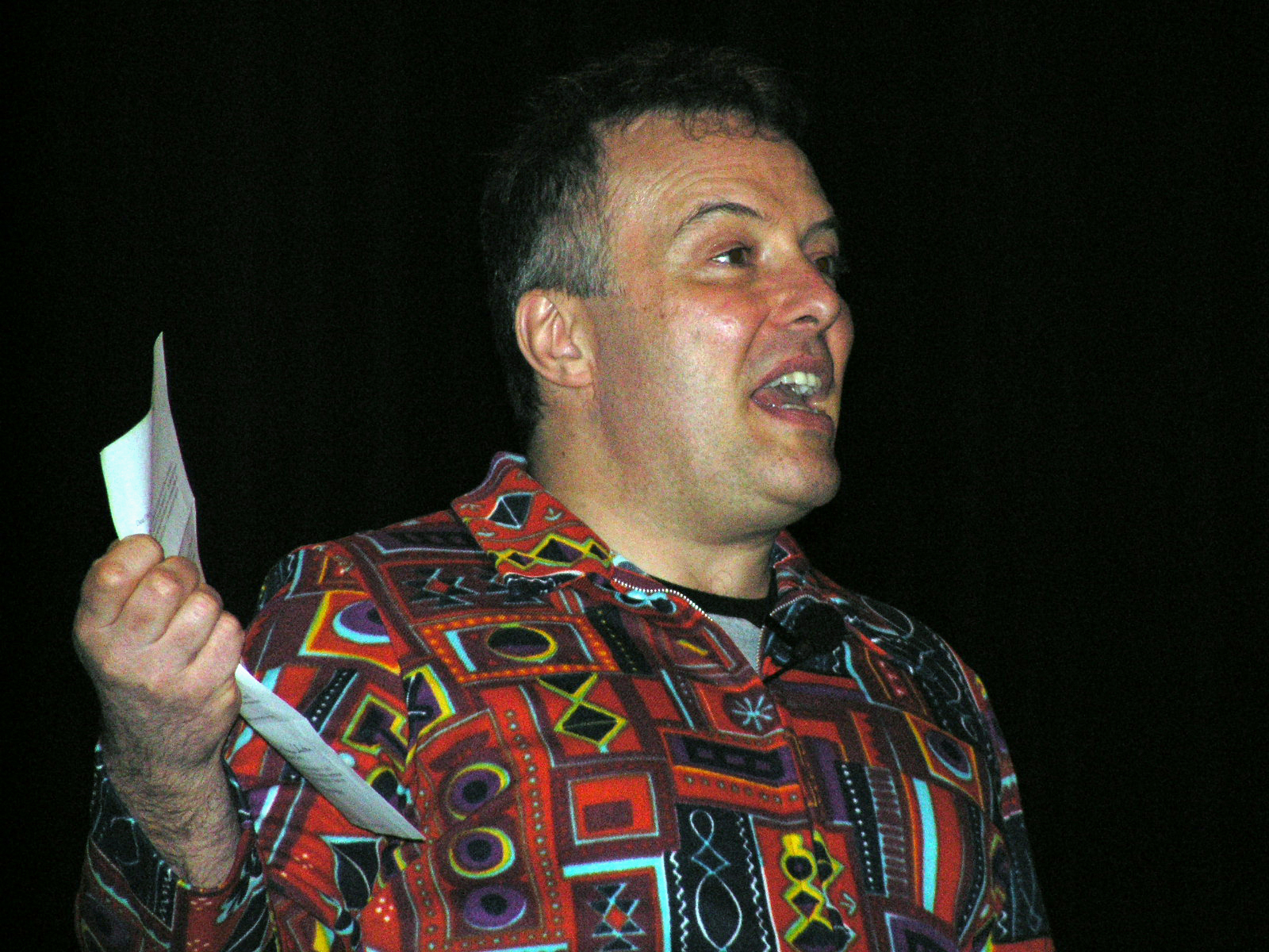 Jello Biafra at the Gothic in Denver